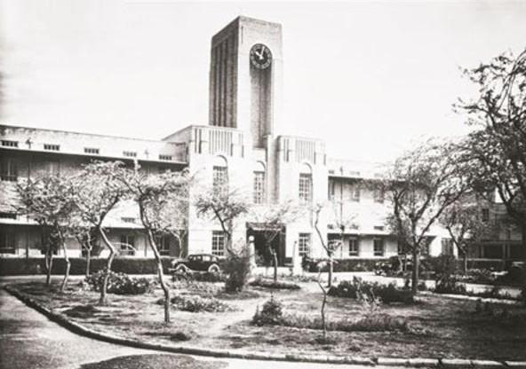 Abadan Petroleum University, belong to Iran Oil Company. established at 1939. It was one of the first universities in Iran.